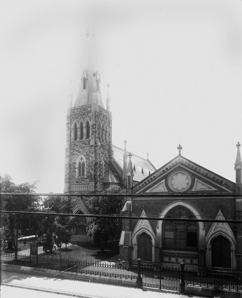 St. Paul's Presbyterian Church in Spring Hill, Brisbane, ca. 1912 The church was constructed in 1888-1889 and dedicated on 5 May, 1889. The architect was F. D. G. Stanley. (Description supplied with photograph).